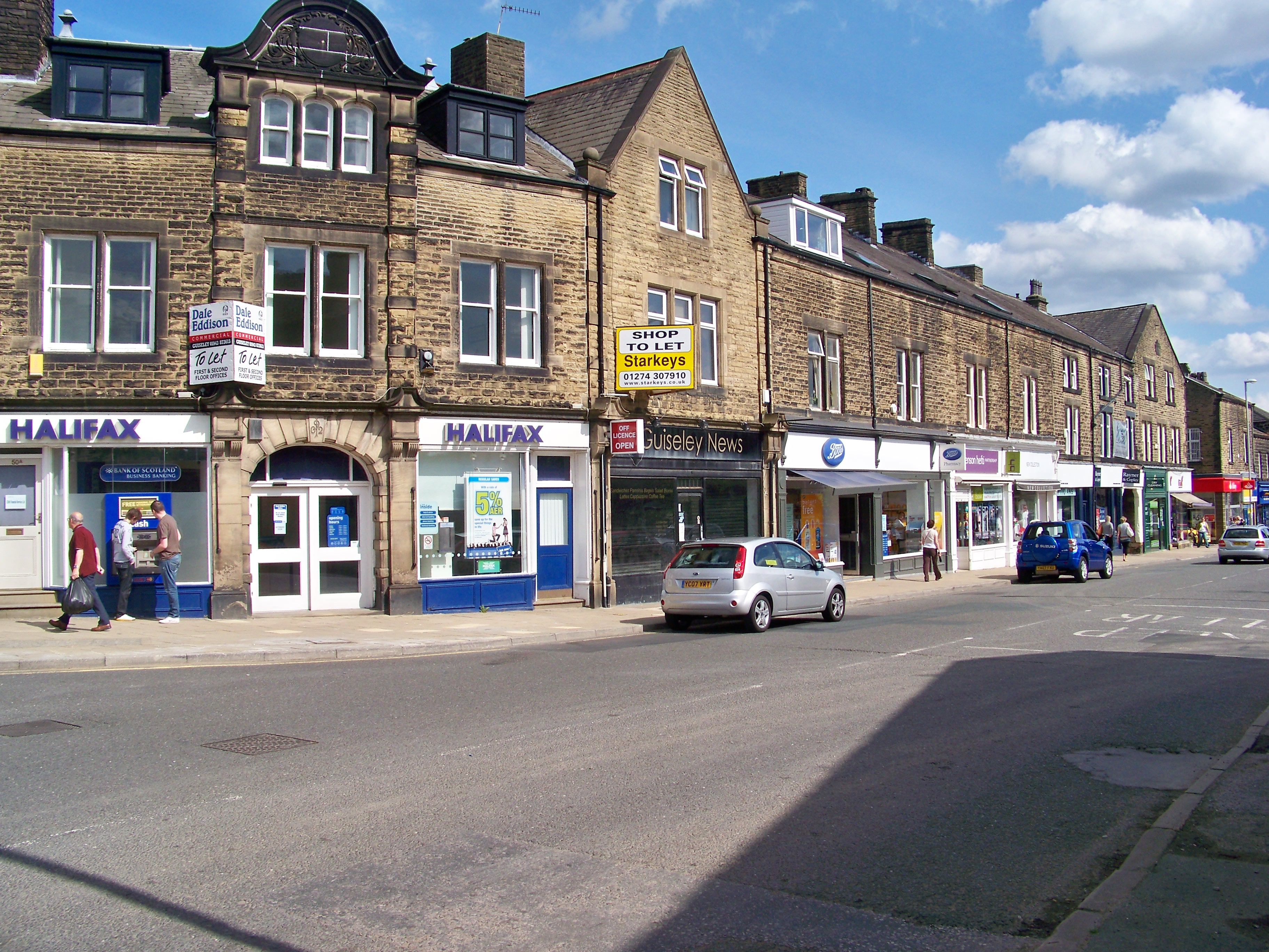 Otley Road, Guiseley, Leeds, West Yorkshire, England. Taken on the afternoon of Saturday 22nd August 2009.